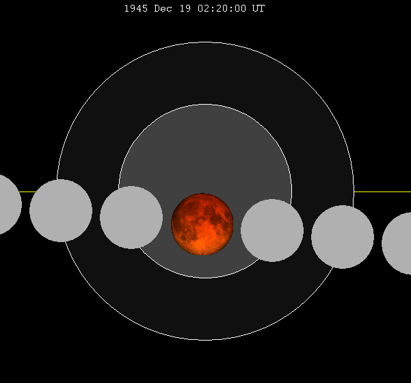 December 1945 lunar eclipse chart of moon's lunar eclipse path through the earth's shadow. thumb